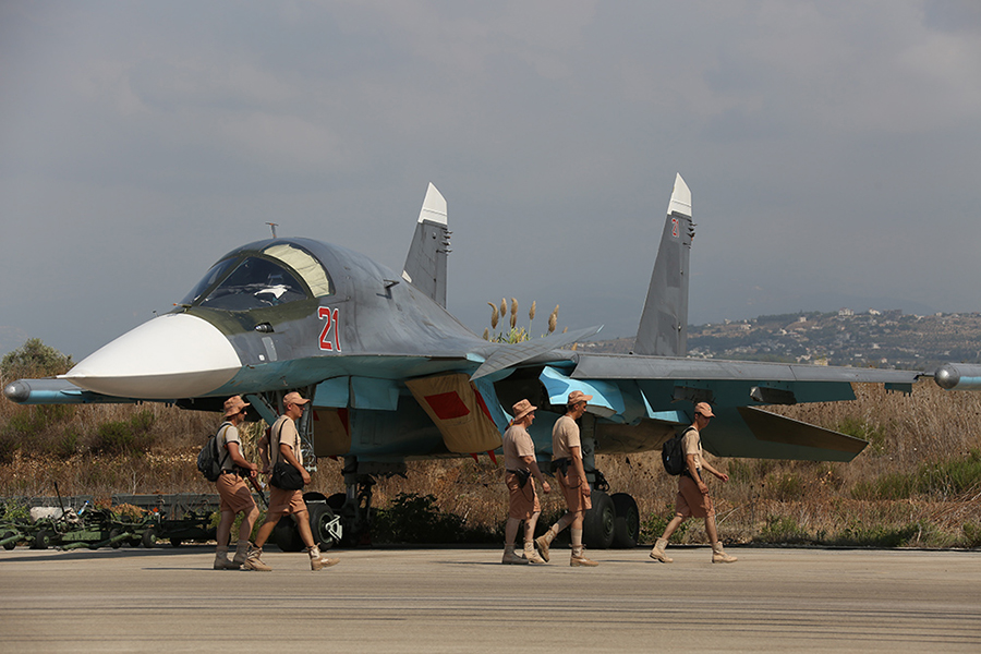 Russian Sukhoi Su-34 at Latakia